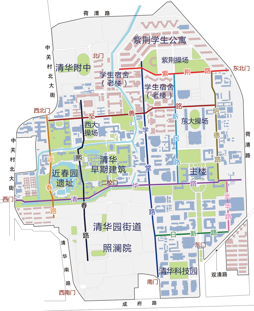 The Simple Map of Tsinghua University. Refer to the official map(before 2002) and Google Earth.